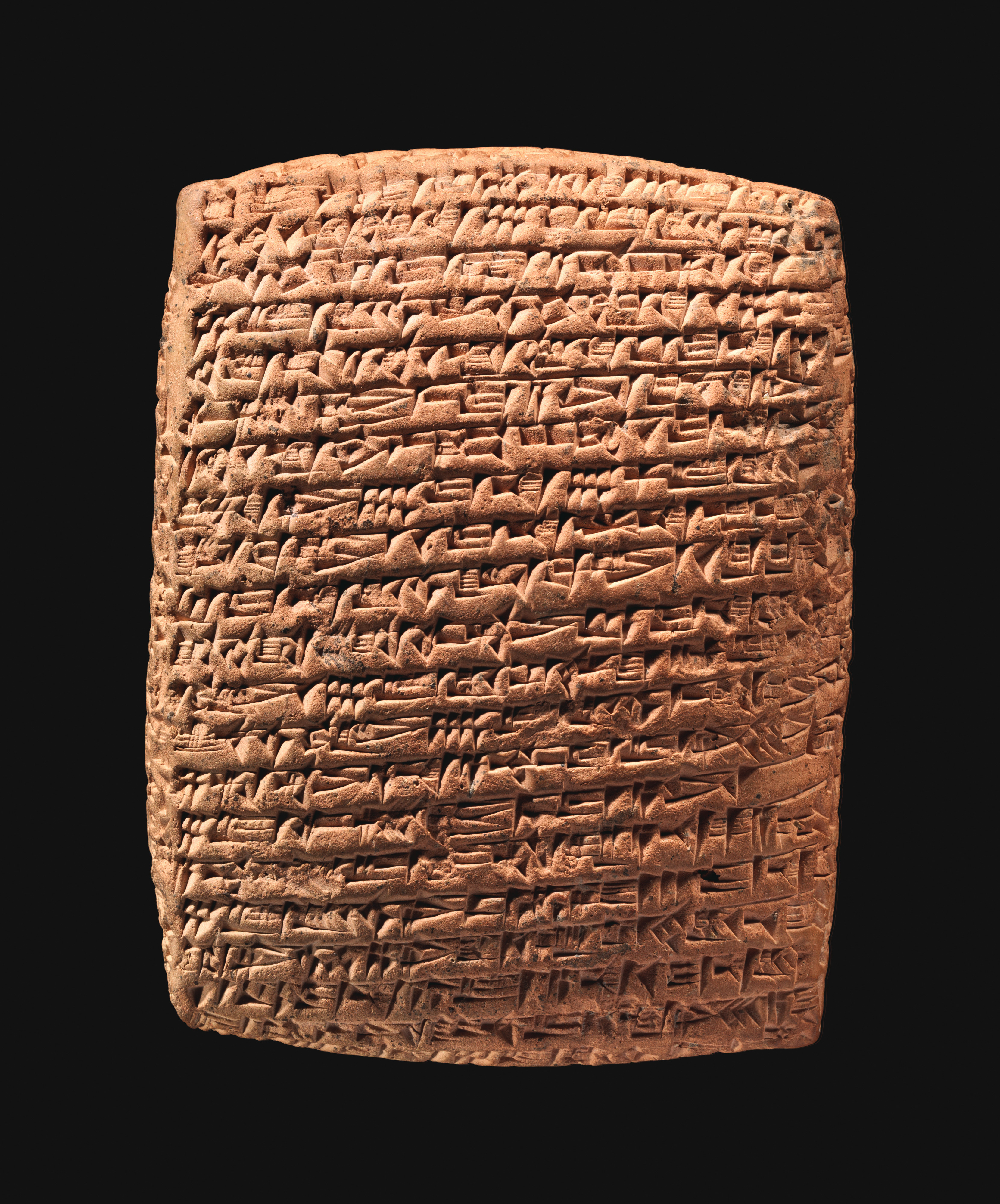 Old Assyrian Trading Colony; Cuneiform tablet; Clay-Tablets-Inscribed